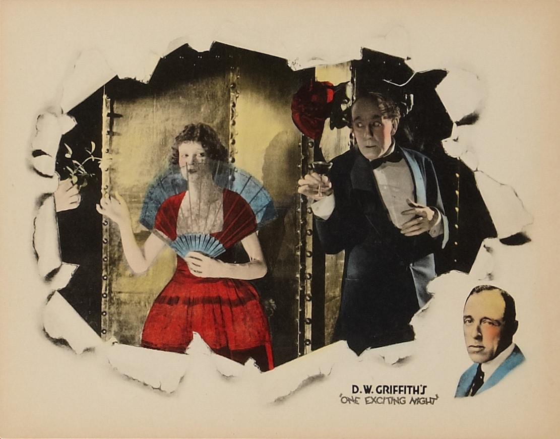 Lobby card for the American mystery film One Exciting Night (1922).